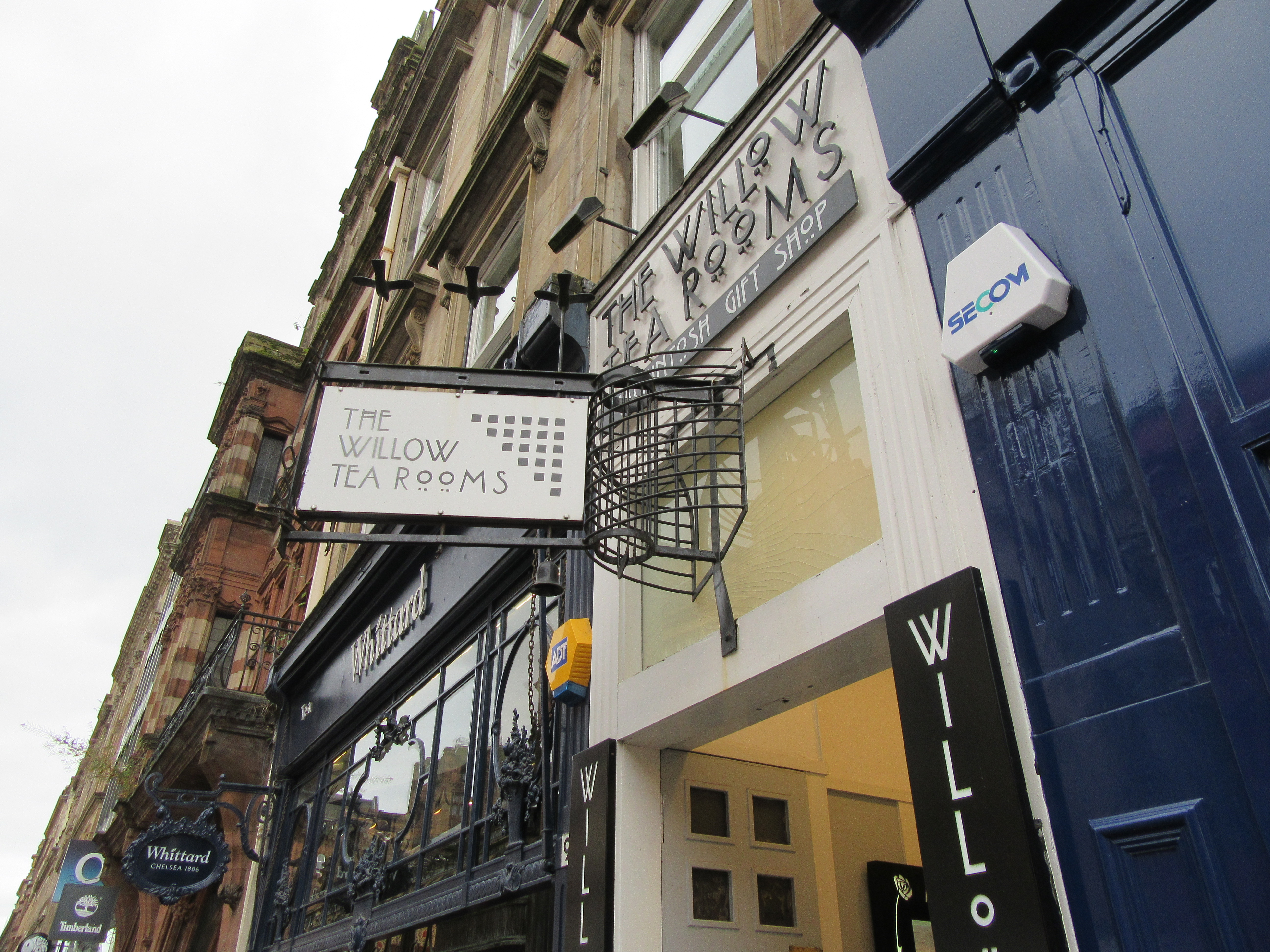 Willow Tearooms, Buchanan Street